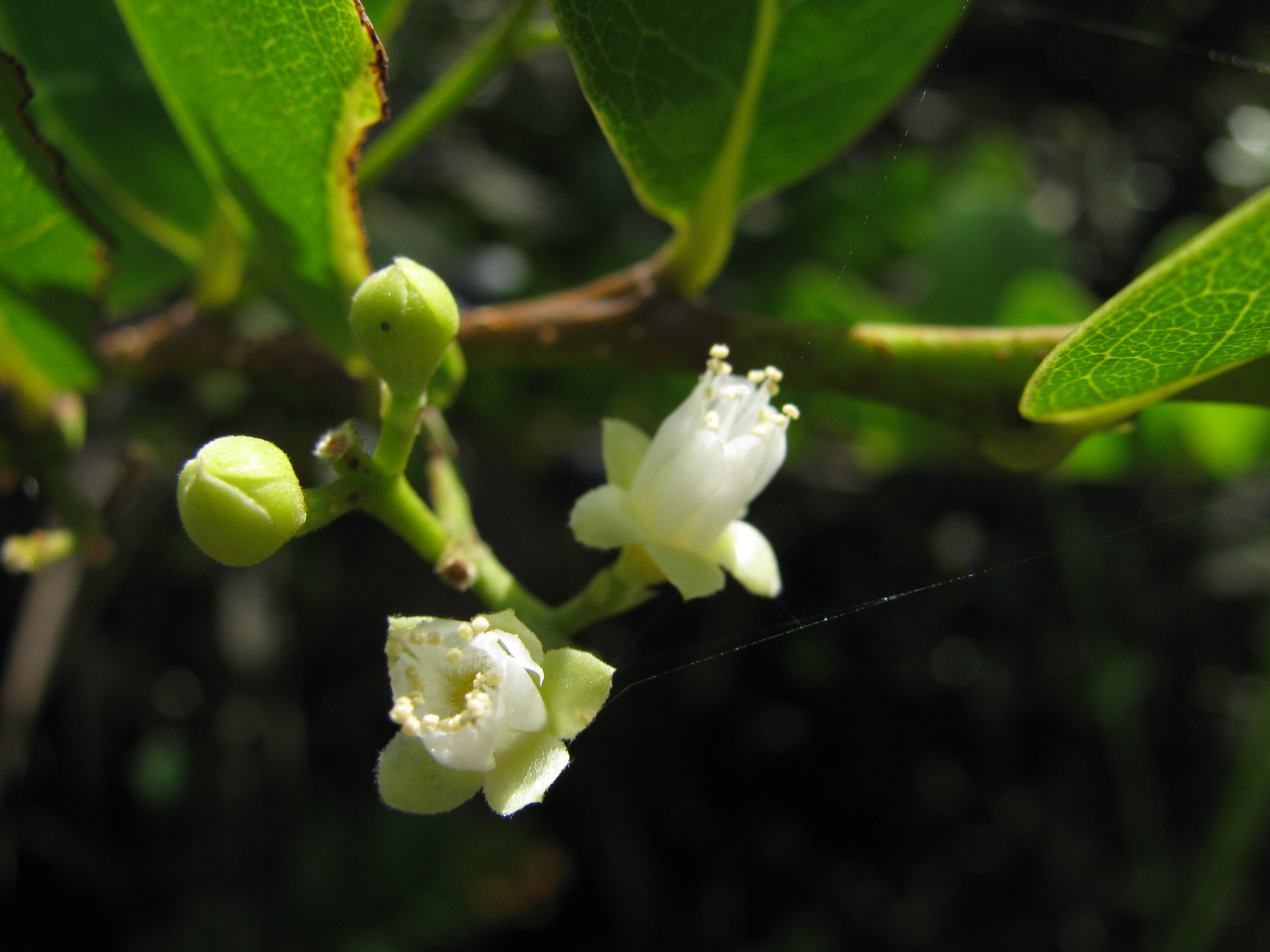 Chrysobalanus icaco-flowers in John Prince Park, Lake Worth, Florida